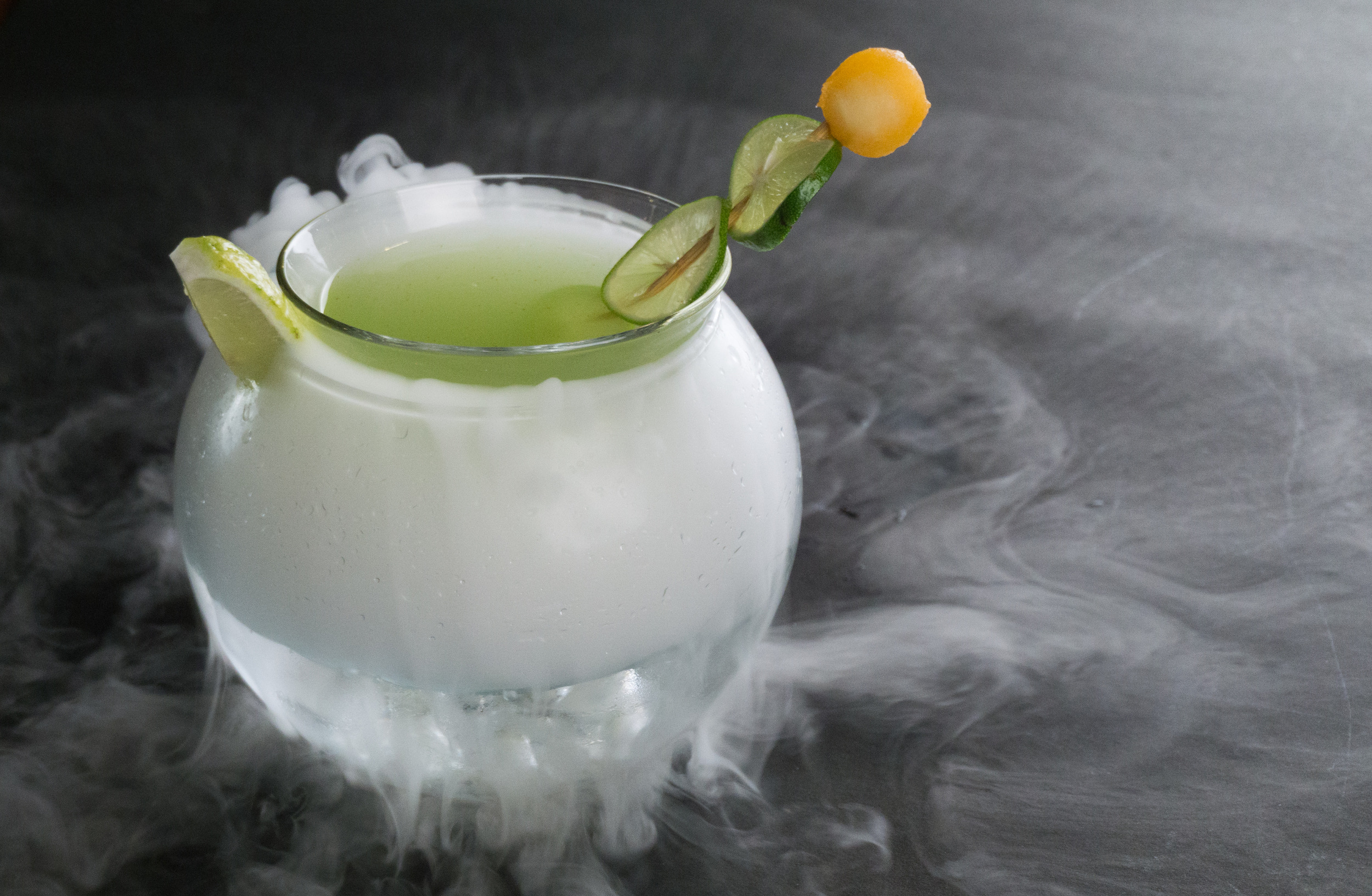 Goblet of Fire - a cocktail made with tequila, lemon zest with hint of chilli, served over a bowl of dry ice.